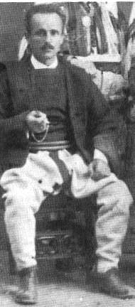 Tomo Bradina, macedonian ethnograpf